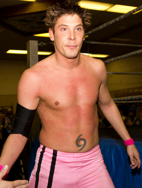 Mike Hart cropped